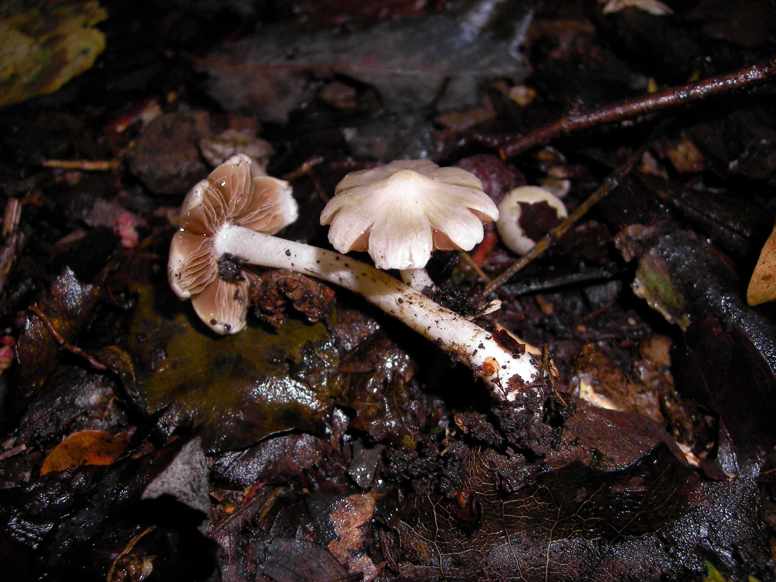 not Inocybe erubescens, Inocybe spec.